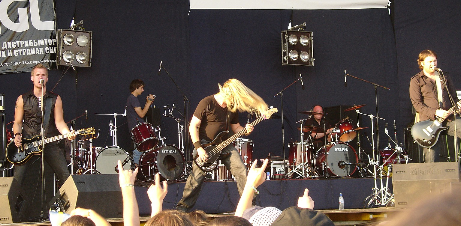 Lake of Tears during ProRock festival in Kyiv, Ukraine July 2009